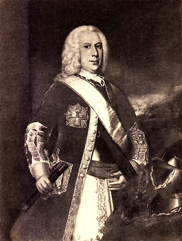 Frederik Anton Wedel Jarlsberg (1694-1738), Danish count and general